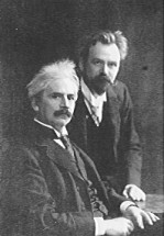 Jenő Hubay and David Popper